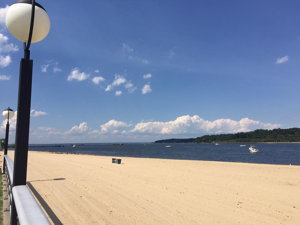 Bar beach